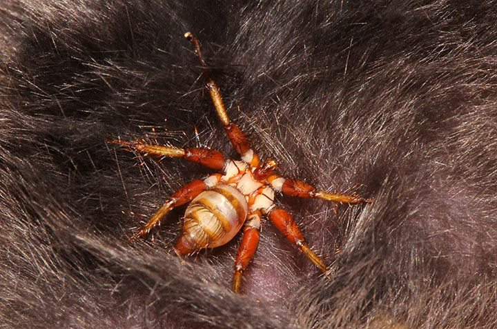 Nycteribiidae, Bunga Inselberg, Gorongosa National Park.